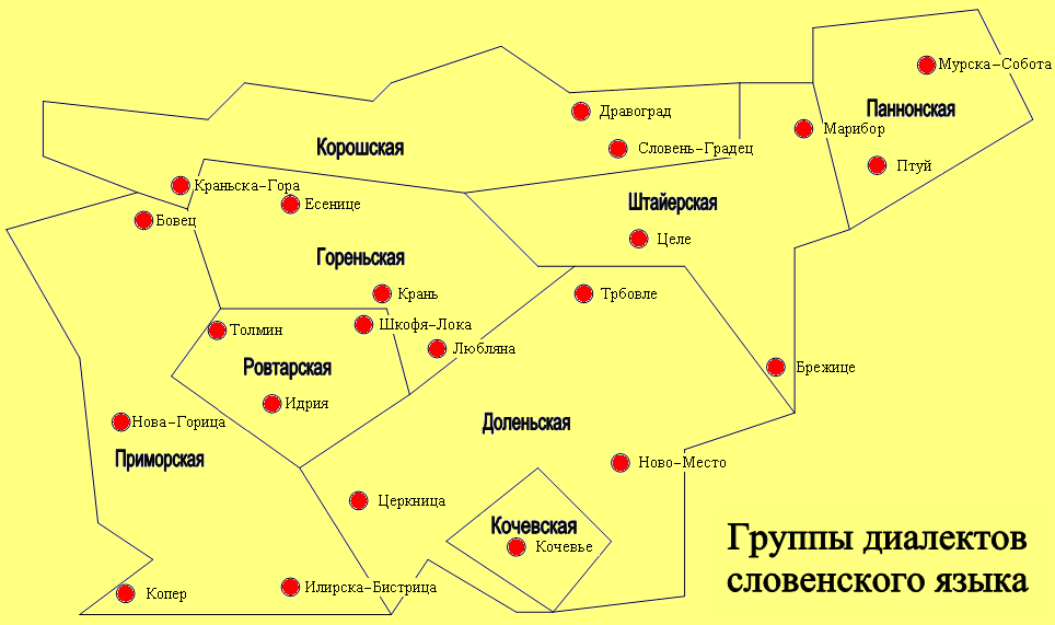 Graph "Groups of slovenian dialects" (ru)